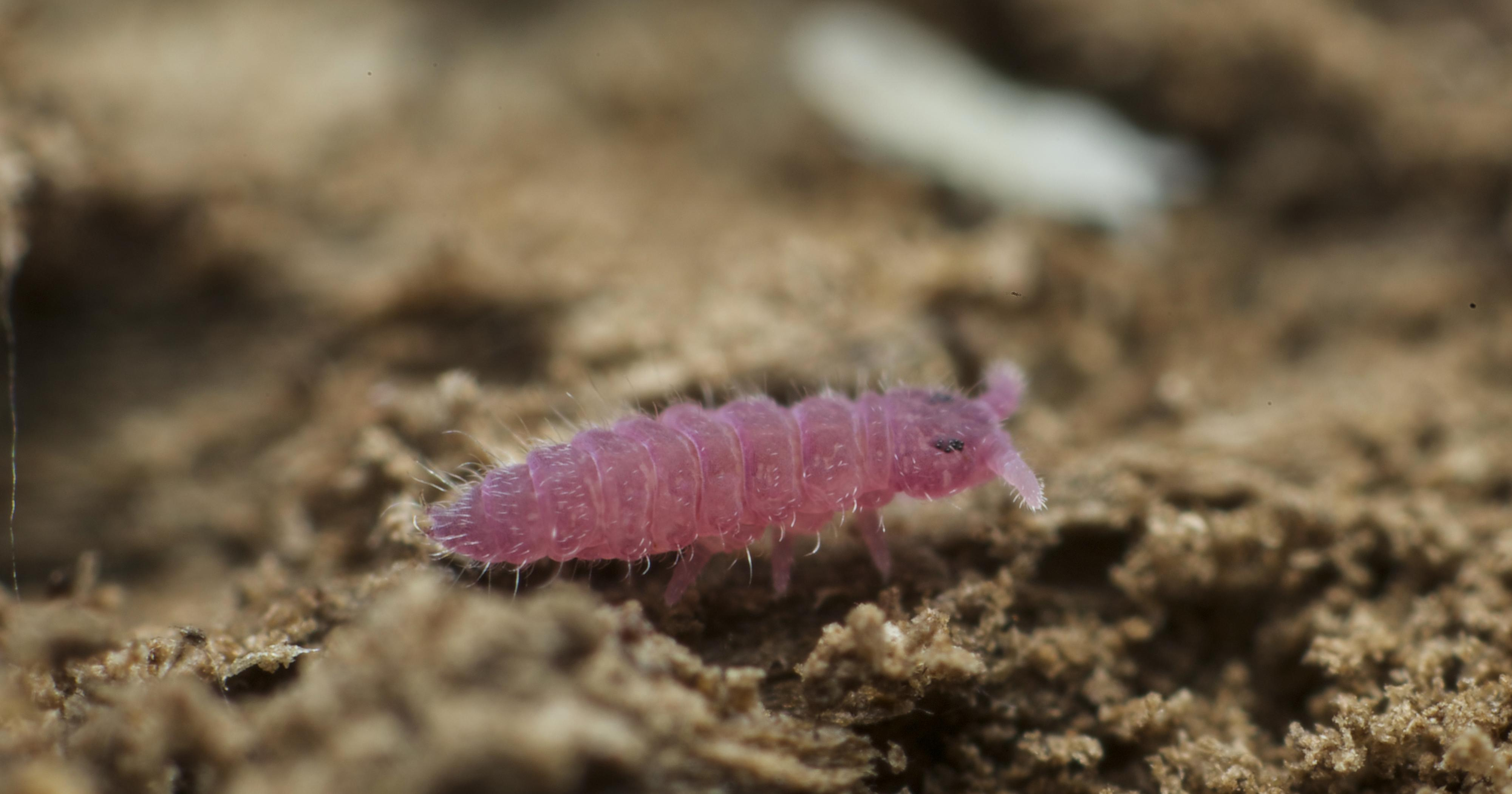 Original description on Flickr: Found down on the wetlands area near Launceston, Tasmania